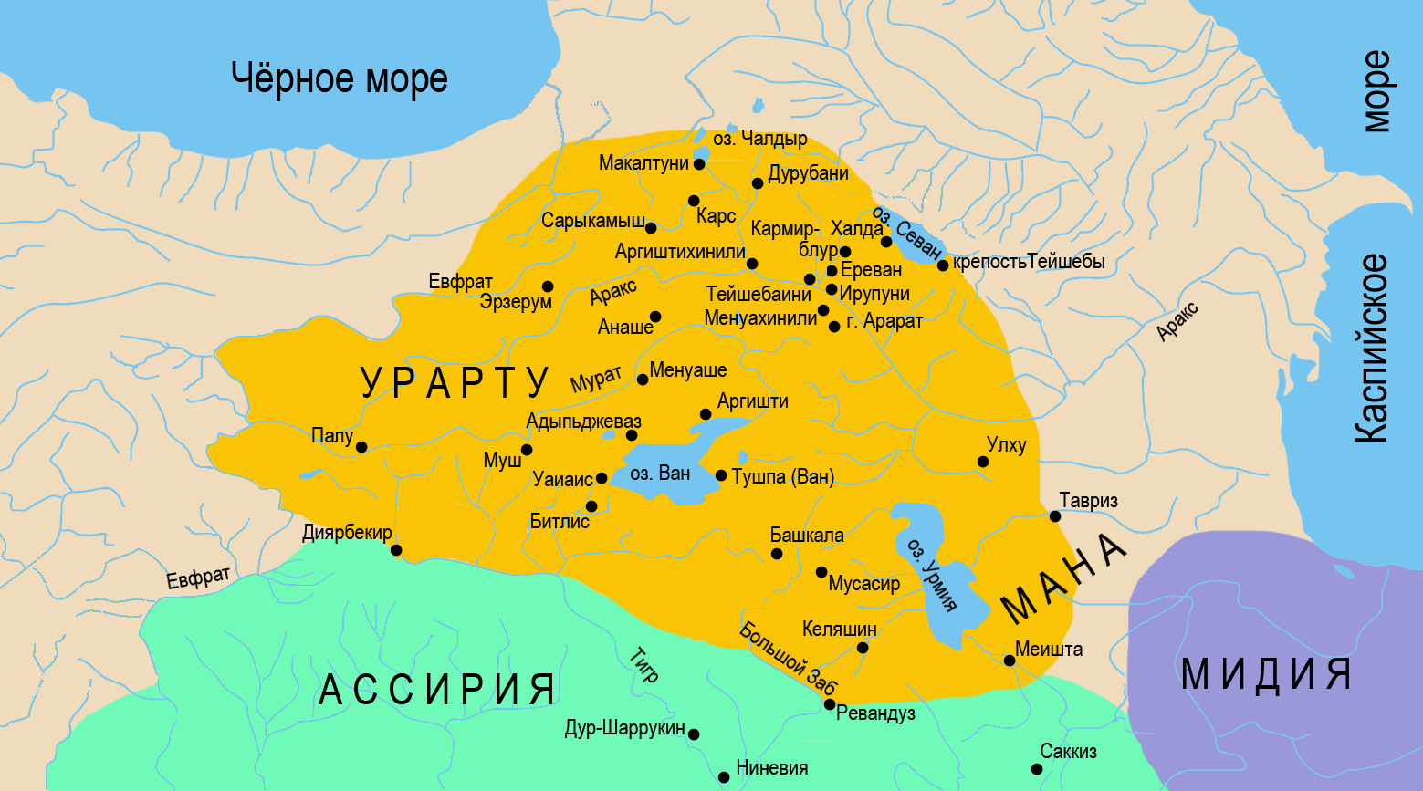 Map of ancient kingdom Urartu, VIIth century BC